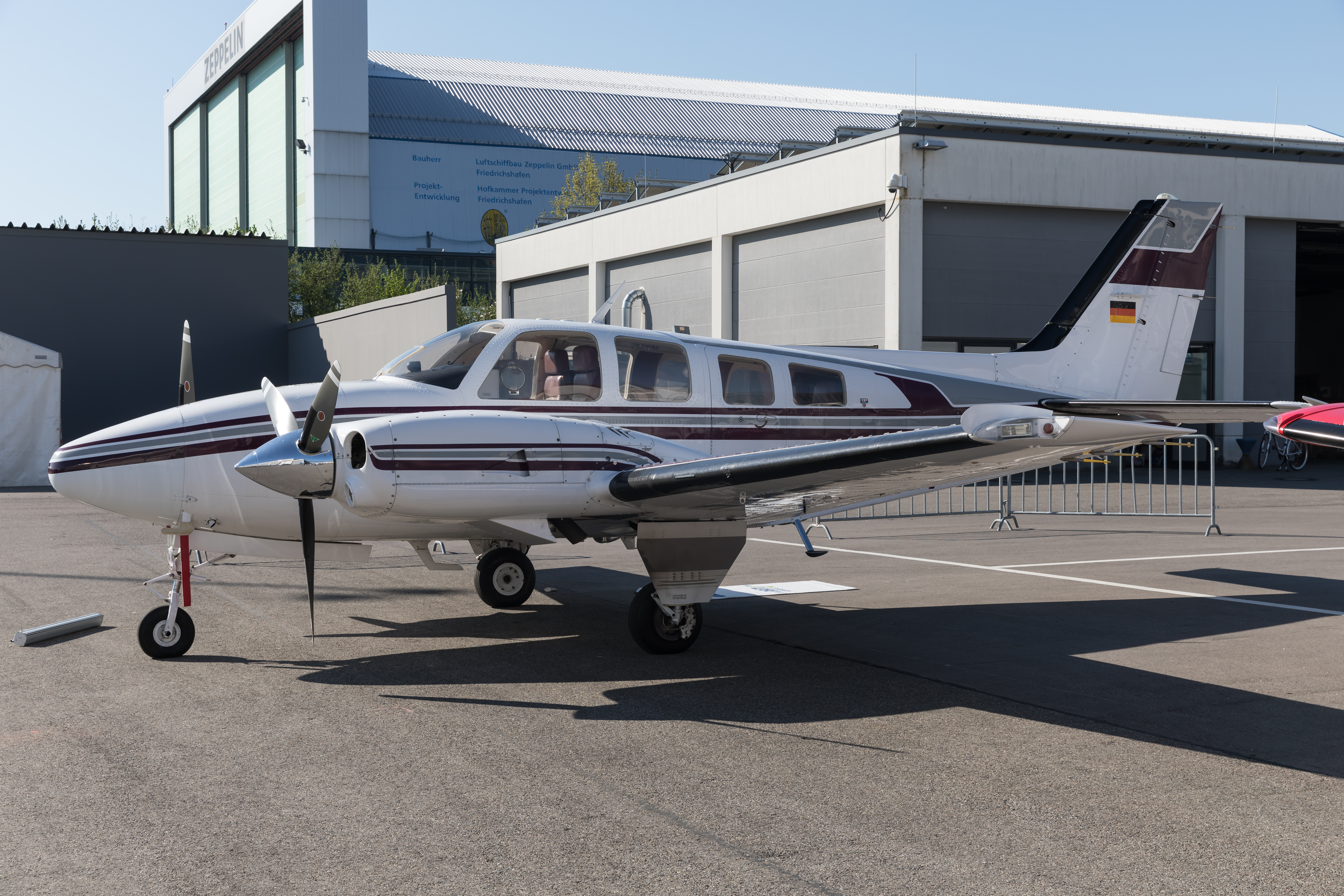 Beechcraft Baron at AERO Friedrichshafen 2018